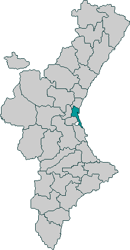 Localisation of València comarca in the Land of Valencia with que comarcal borders